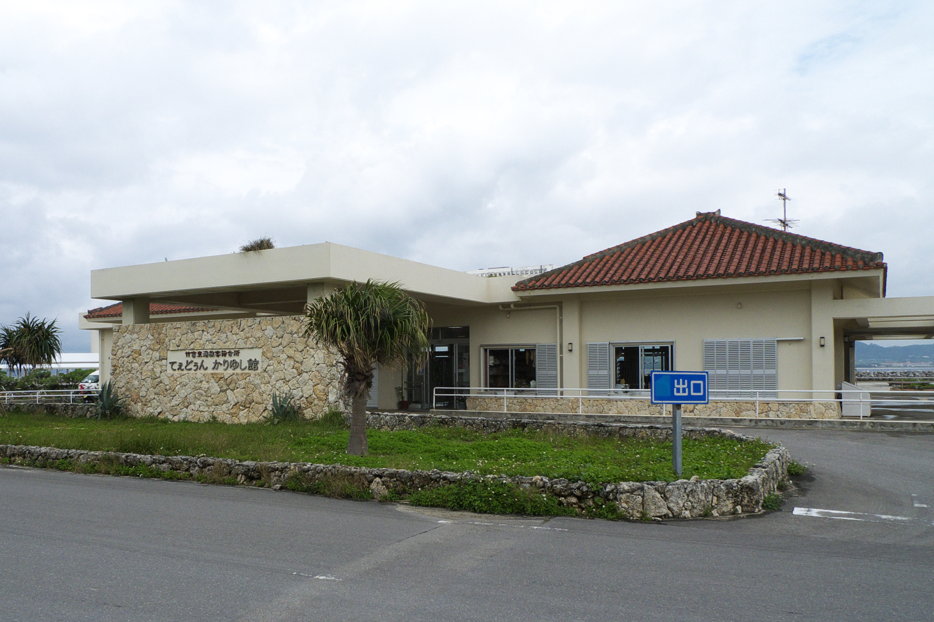 "Tedun Kariyushi-kan", passenger terminal at the Port of Taketomi, in Taketomi Town, Okinawa Prefecture, Japan